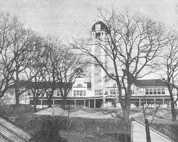 ”Huvudrestaurangen (på Syltbergets krön)”. The Head restaurant, by the Swedish architect Werner Northun on the Industrial and art exhibition in Norrköping, Sweden, the summer 1906.